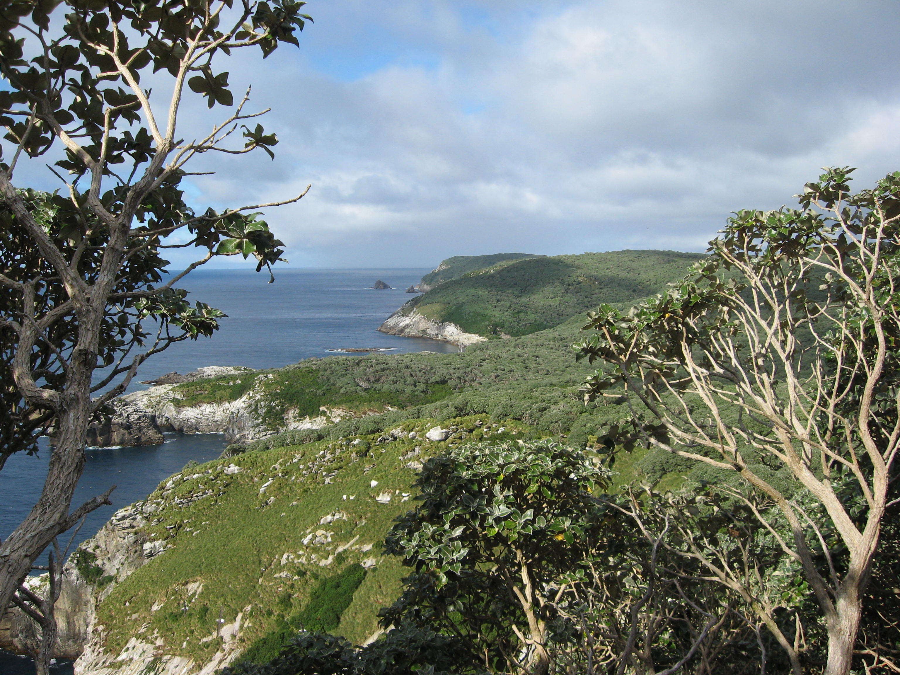 Snares Islands, New Zealand; standing on the North Eastern End, looking South - across Punui Bay, Ho Ho Bay, Mollymawk Bay then Broughton Island - the southernmost wooded land - in the distance